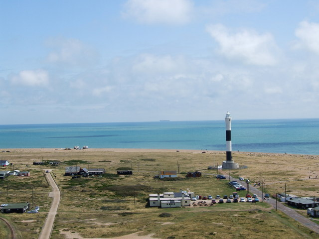 Dungeness, Kent